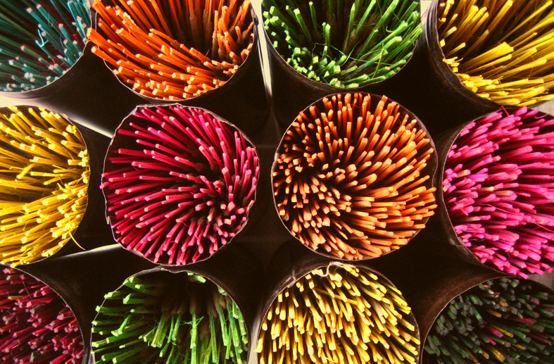 A selection of incense sticks from Bangalore for sale near the Lakshmi-Narayan Temple in Buleshwar.